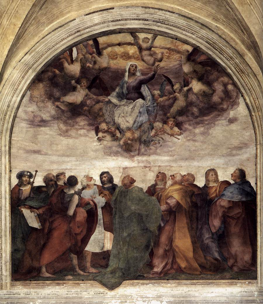 ROSSO FIORENTINO Assumption of the Virgin Fresco, 385 x 395 cm SS. Annunziata, Florence